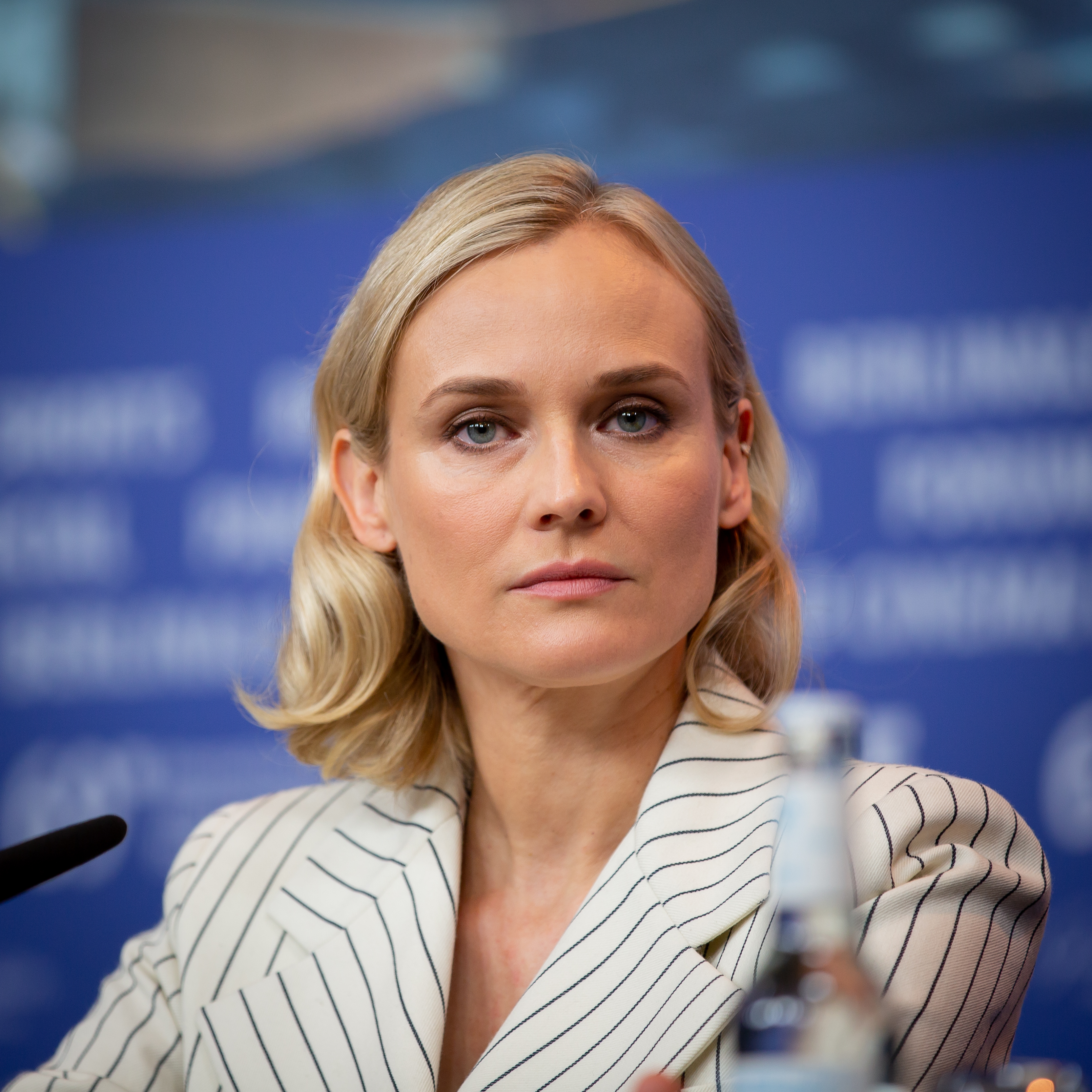 Actress Diane Kruger at the Berlinale 2019